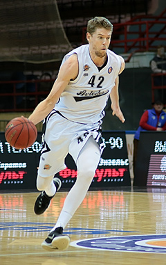 Saratov